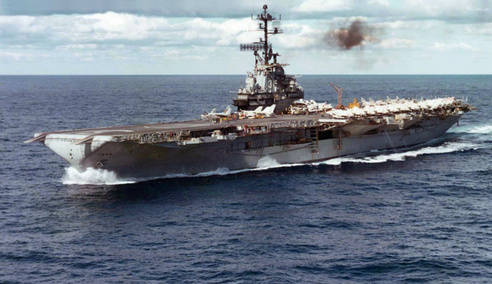 The U.S. Navy aircraft carrier USS Bon Homme Richard (CVA-31) underway.